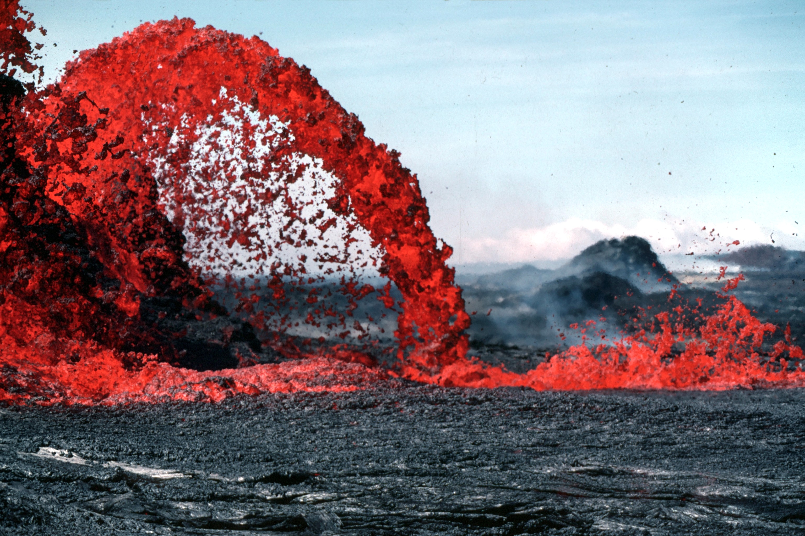 Image of a Pahoehoe fountain. Original caption: "Arching fountain approximately 10 m high issuing from the western end of the 0740 vents, a series of spatter cones 170 m long, south of Pu‘u Kahaualea. Episodes 2 and 3 were characterized by spatter and cinder cones, such as Pu‘u Halulu, which was 60 m high by episode 3 (photo by J.D. Griggs, 02/25/83, JG928) (picture #004)."